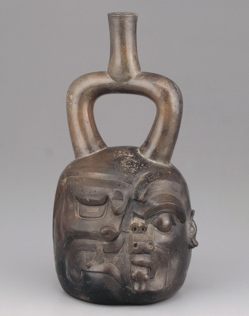 Cupisnique stirrup-spout bottle. Larco Museum Collection. Lima-Peru